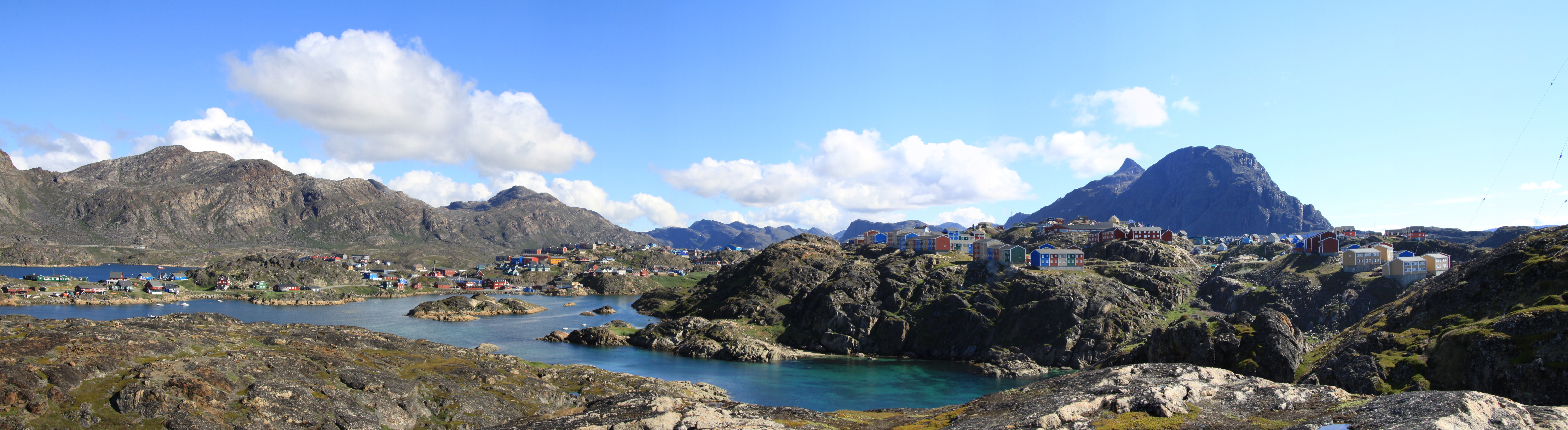 Panorama of Sisimiut, Greenland